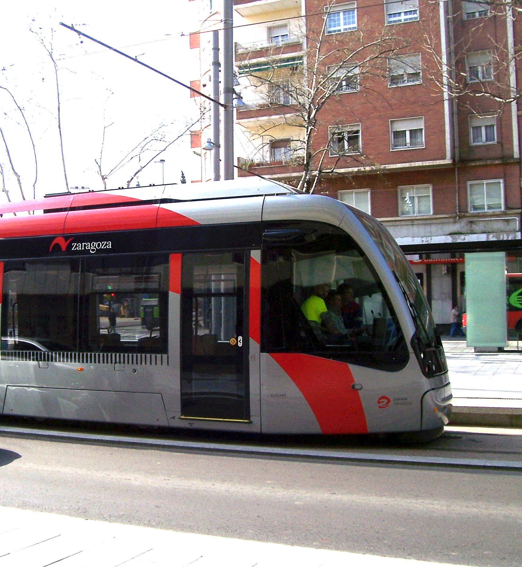 Modified photo of an Urbos 3 tram in Zaragoza